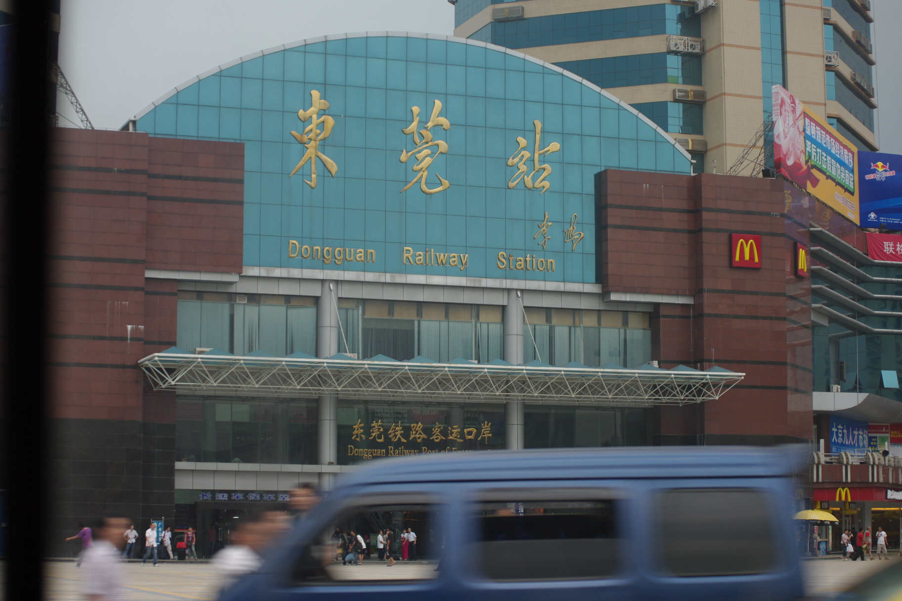 Dongguan Railway Station